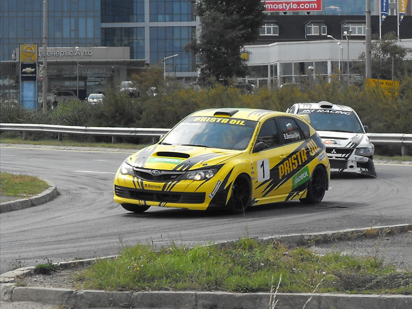 Boris Borisov - bulgarian racecar driver